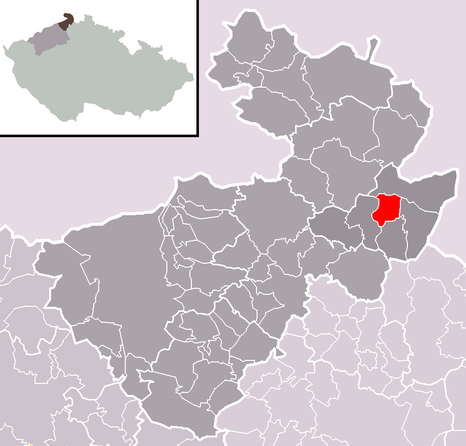 Location of Horní Podluží municipality within Děčín District and administrative area of Varnsdorf as a Municipality with Extended Competence.